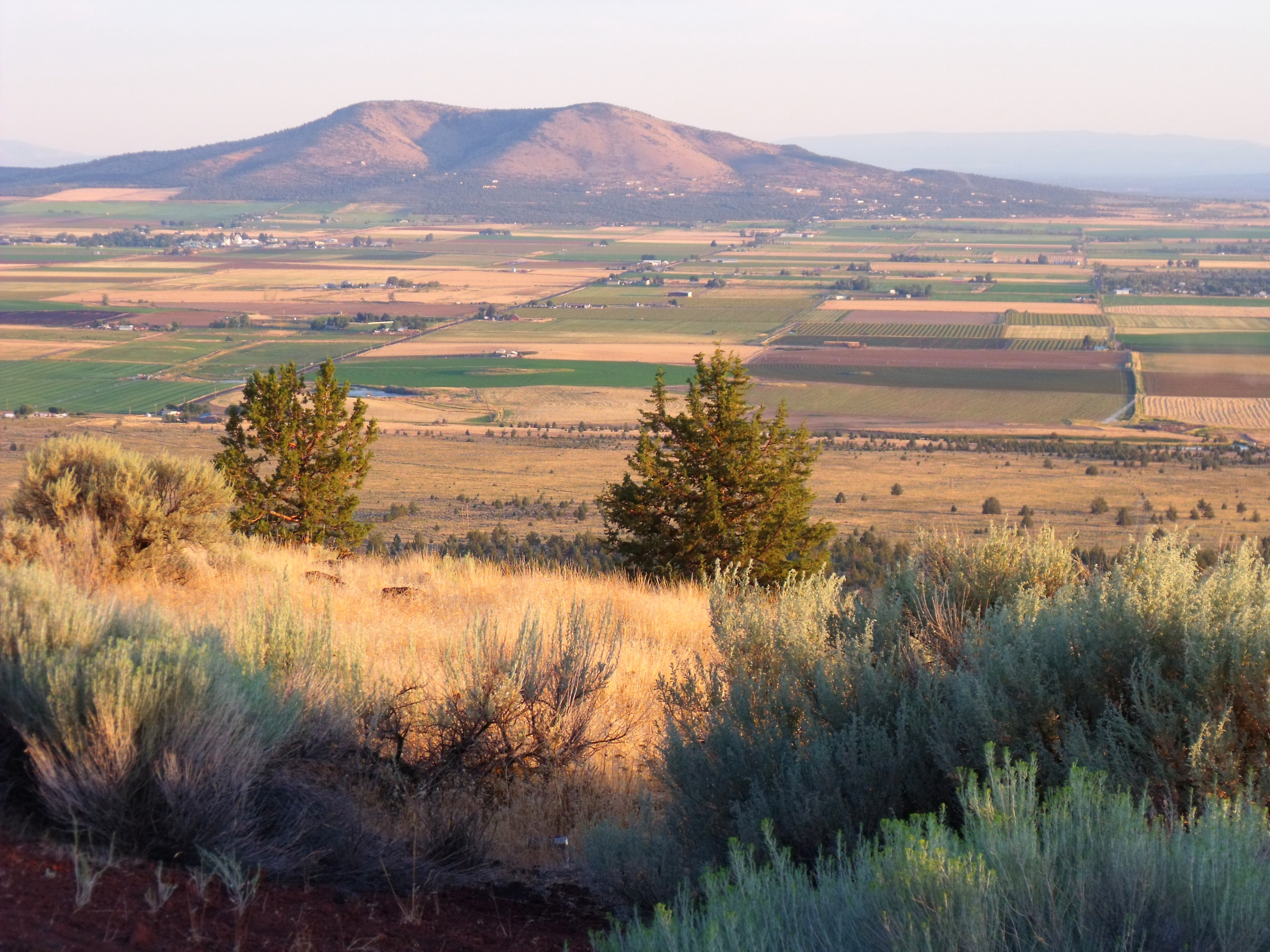 Agricultural fields in Culver, Oregon—a city in Jefferson County—as seen from the summit of Round Butte